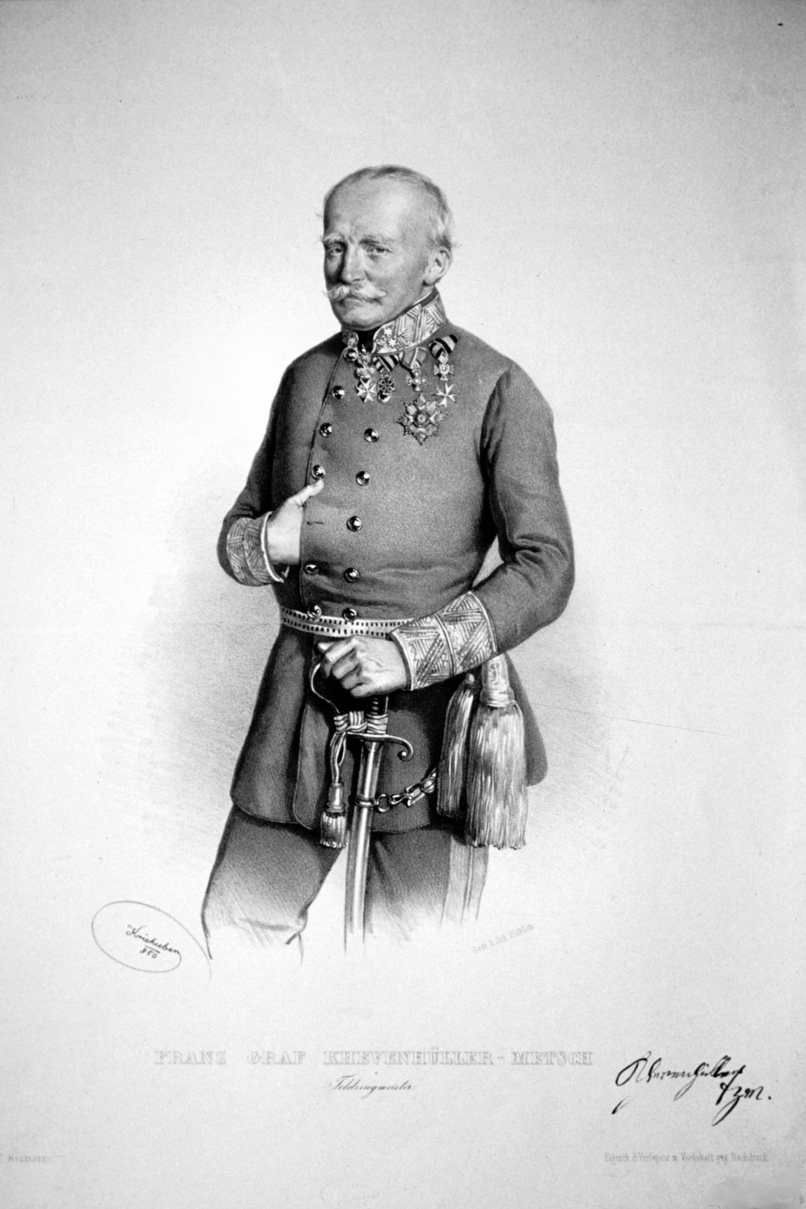 Franz von Khevenhüller-Metsch (1783-1867), k. k. Feldzeugmeister.